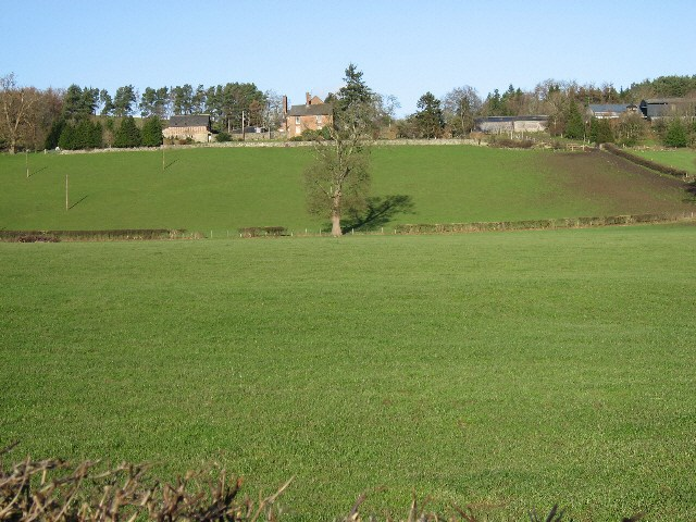 Looking northward to Dolobran Hall, in the parish of Meifod, near Pontrobert, Powys, Wales. Historic seat of the Lloyd family of Birmingham, steel-founders, bankers (Lloyd's Bank) and Quakers.